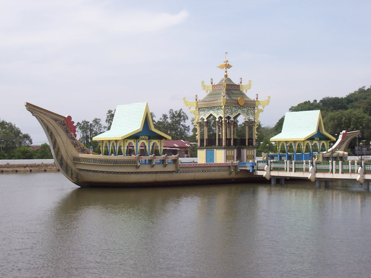 Outside the Omar Ali Saifuddin Mosque, Bandar Seri Begawan, Brunei Darussalam.